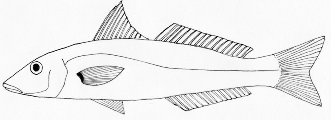 Hand drawn diagram of the Sand whiting, Sillago ciliata. Done in felt tip pen, based on Horrobin (1997) and colour photographs of species.